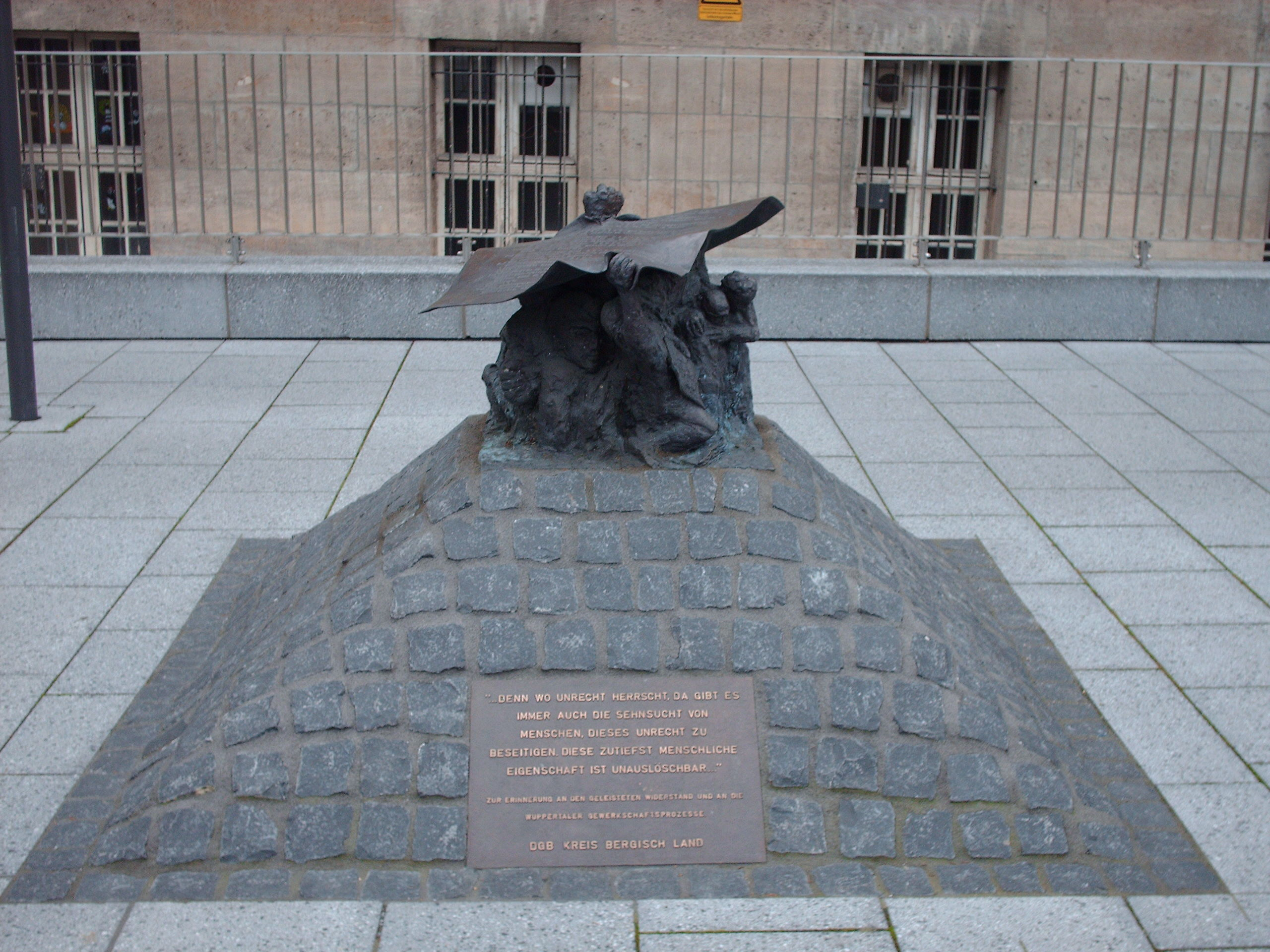 Monument at Courts, Wuppertal, Germany